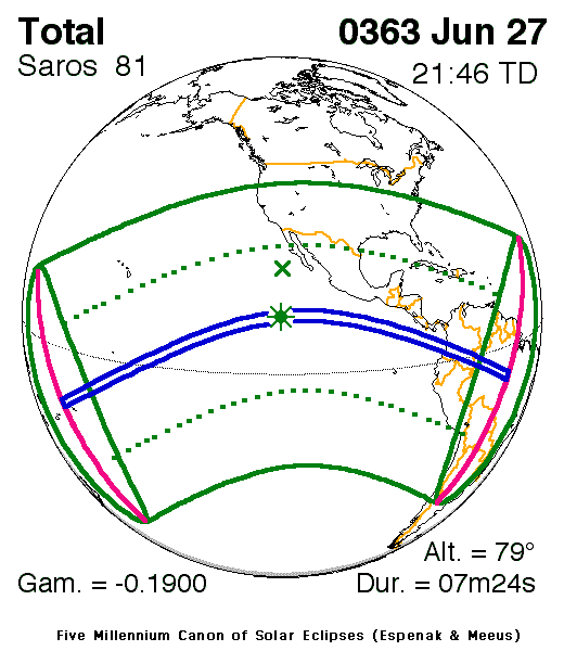 Eclipse Predictions by Fred Espenak, NASA/GSFC". Prediction for 27 June, 363